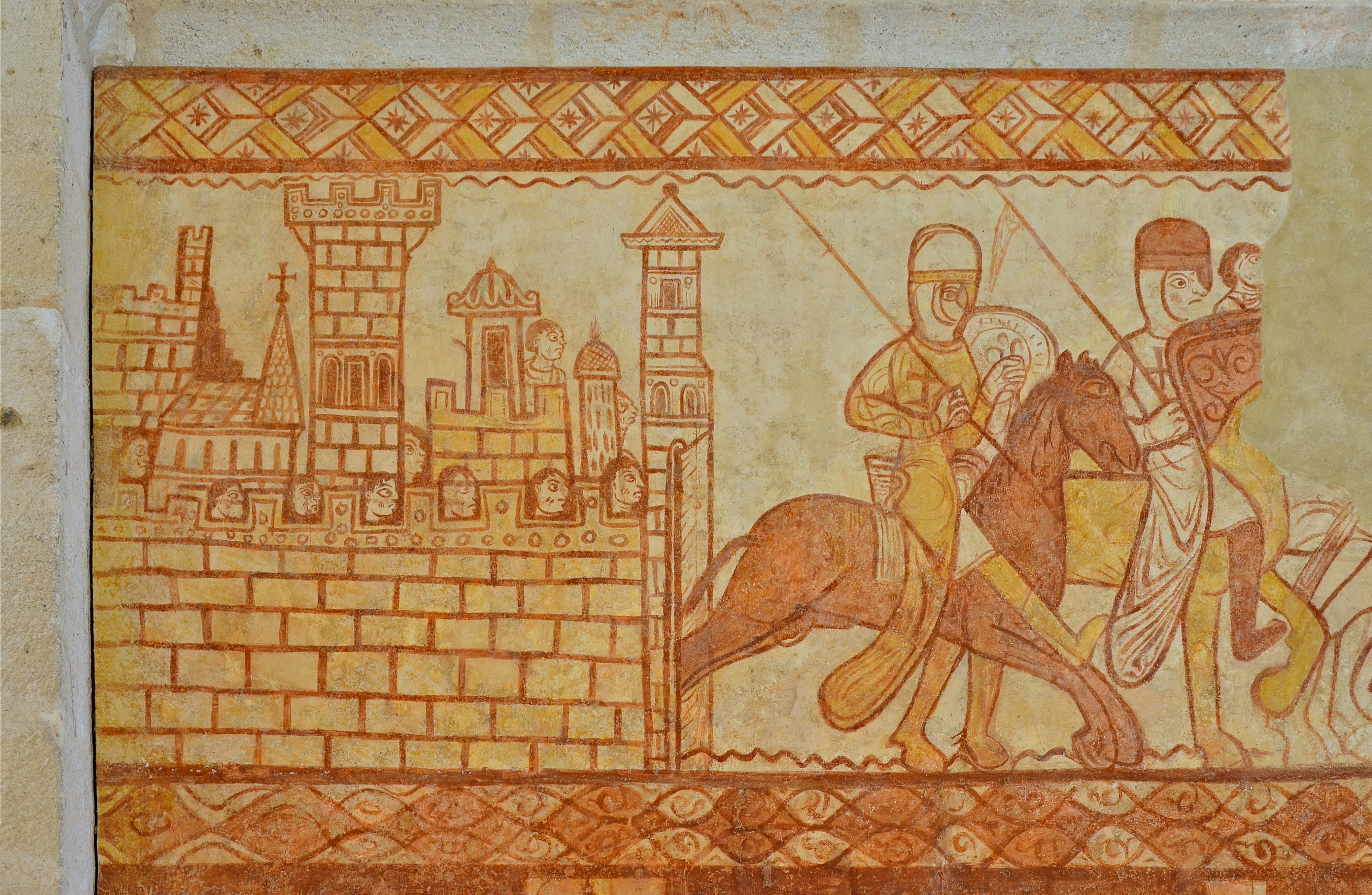 Knights of the Cross leaving for the battle of La Bocquée (1163), mural painting (end of the 12th century), temple of Cressac, Charente, France.